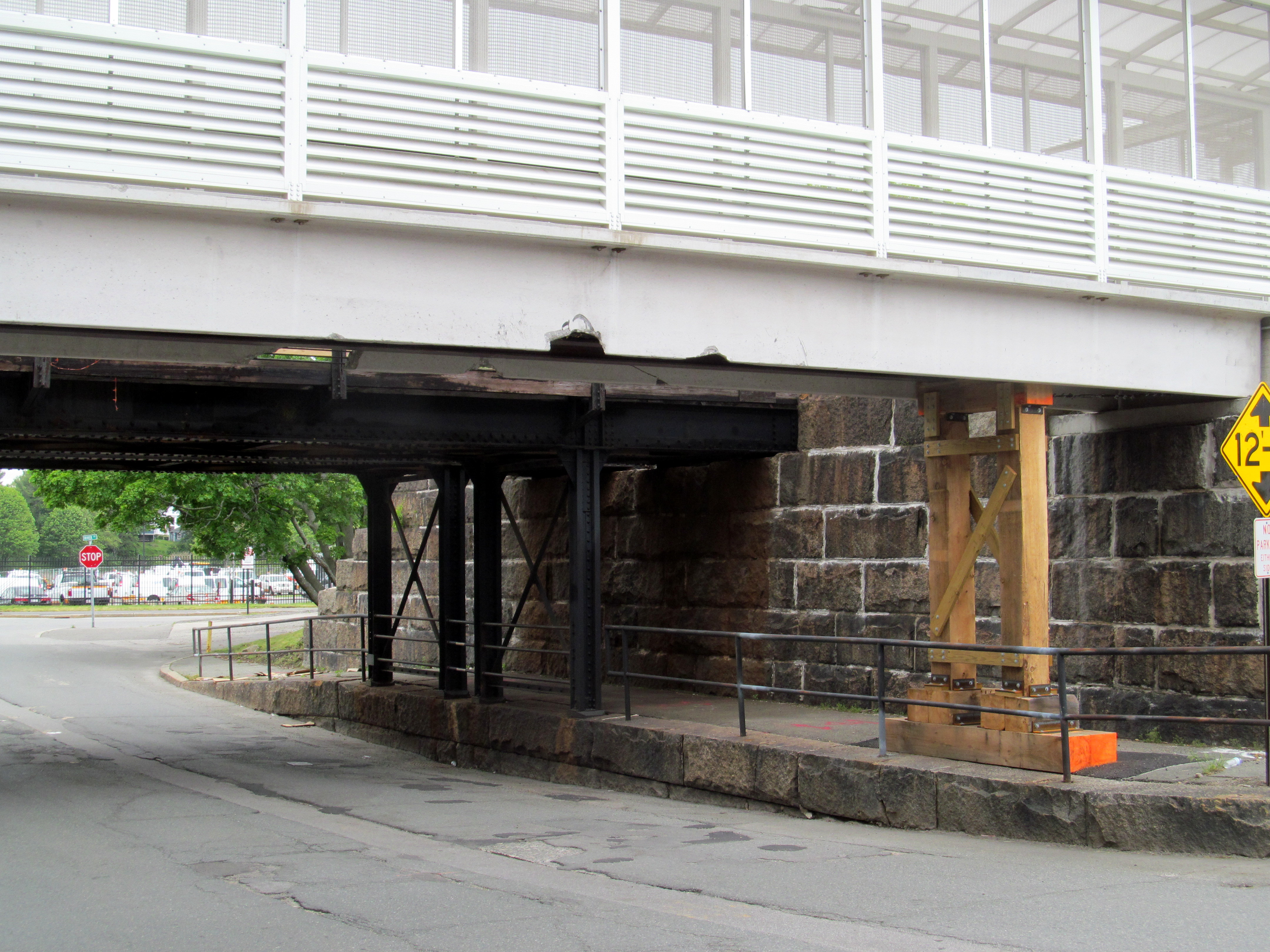 Damaged pedestrian bridge over Pleasant Street at at Beverly Depot in May 2017. The bridge was damaged by a high load on a flatbed truck on April 3, 2017.